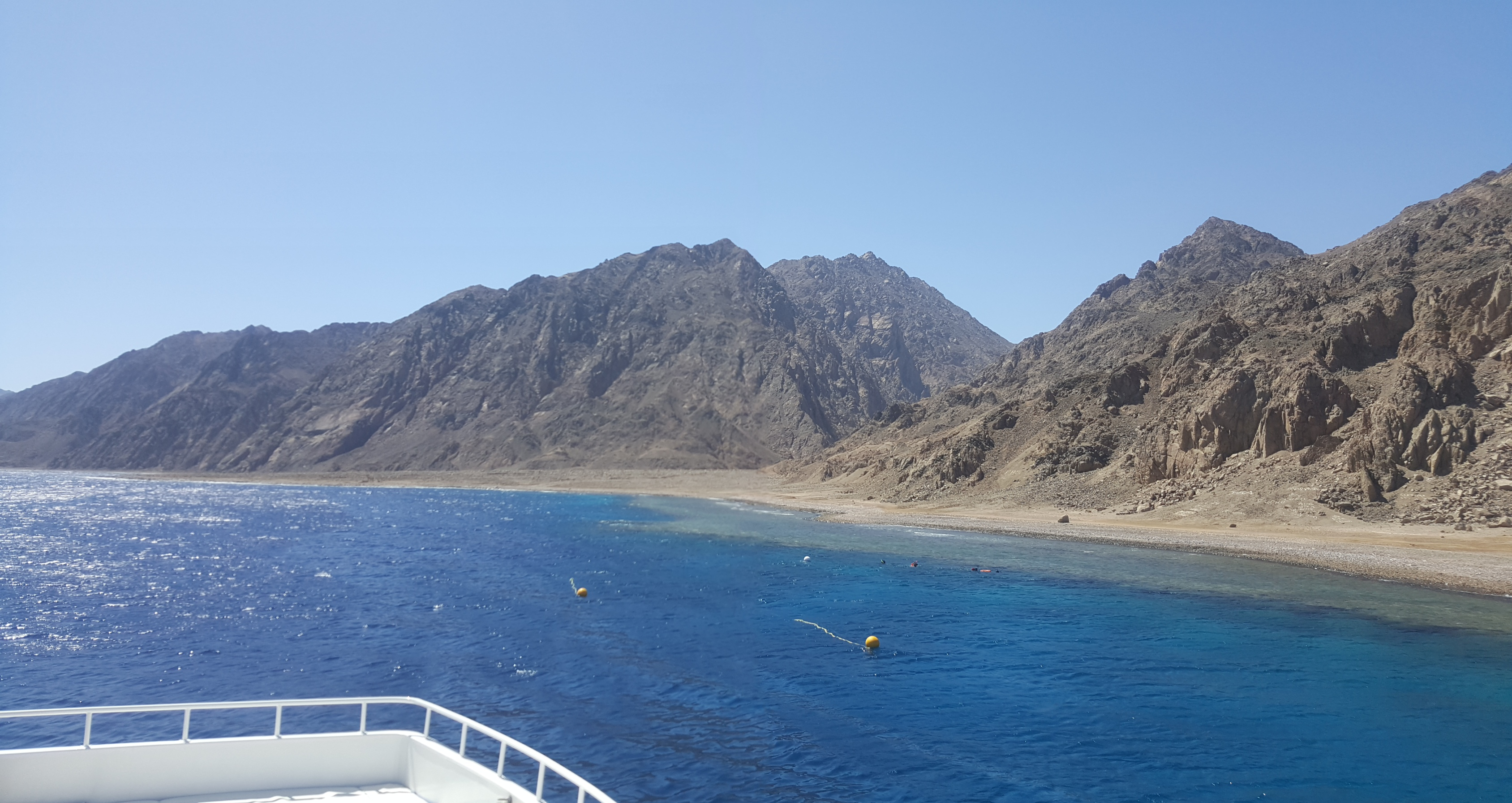 This is an image with the theme "Africa on the Move or Transport" from: Egypt